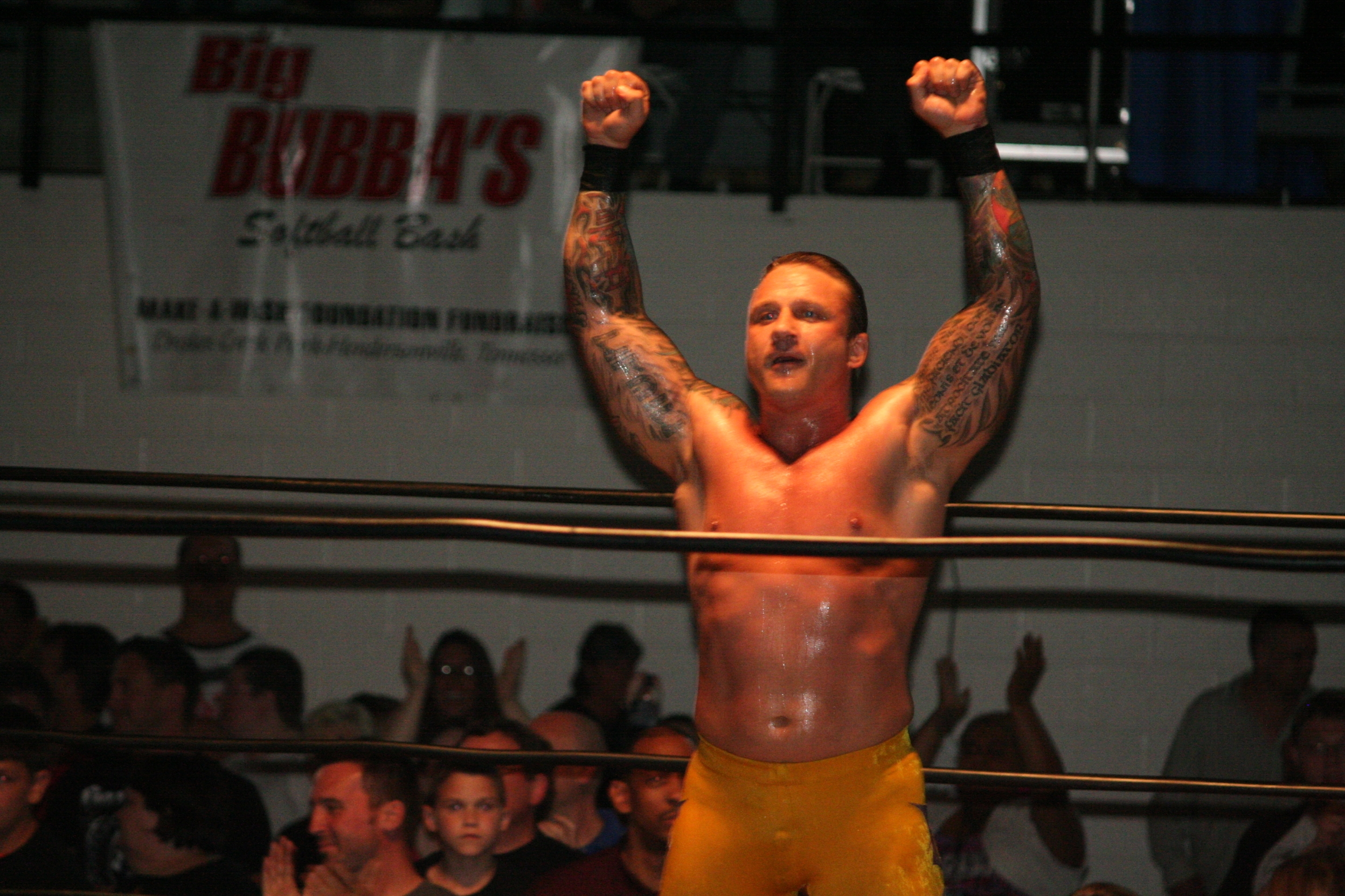 Kid Kash at a Crossfire Pro Wrestling event in Nashville, TN, on May 19, 2012.